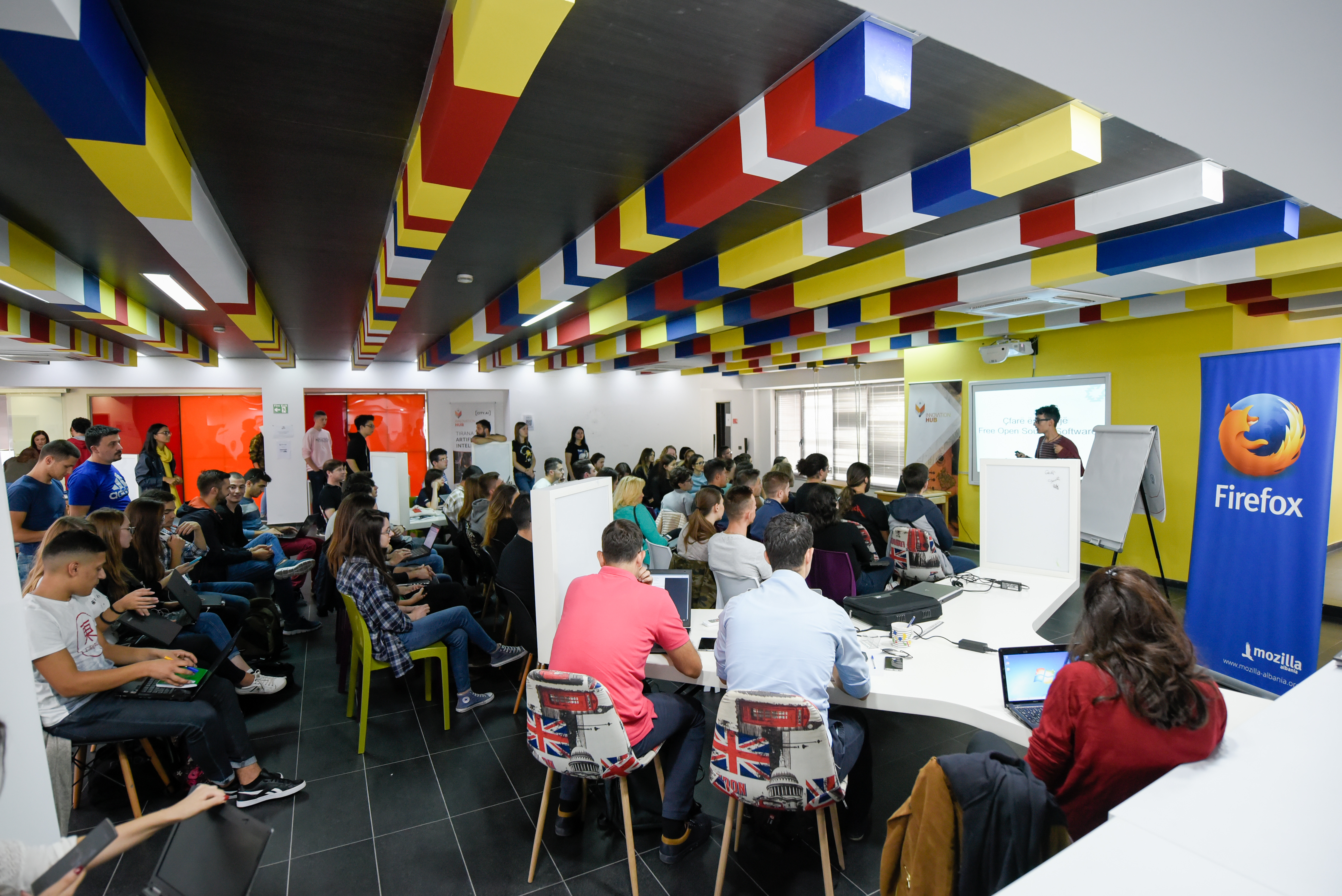 Photos from CryptoParty Tirana organized by Open Labs Hackerspace. Special Guests: Arjen Kamphuis Ardian Haxha CryptoPartyAL License: Creative Commons Attribution 4.0 International Credits: Andis Rado